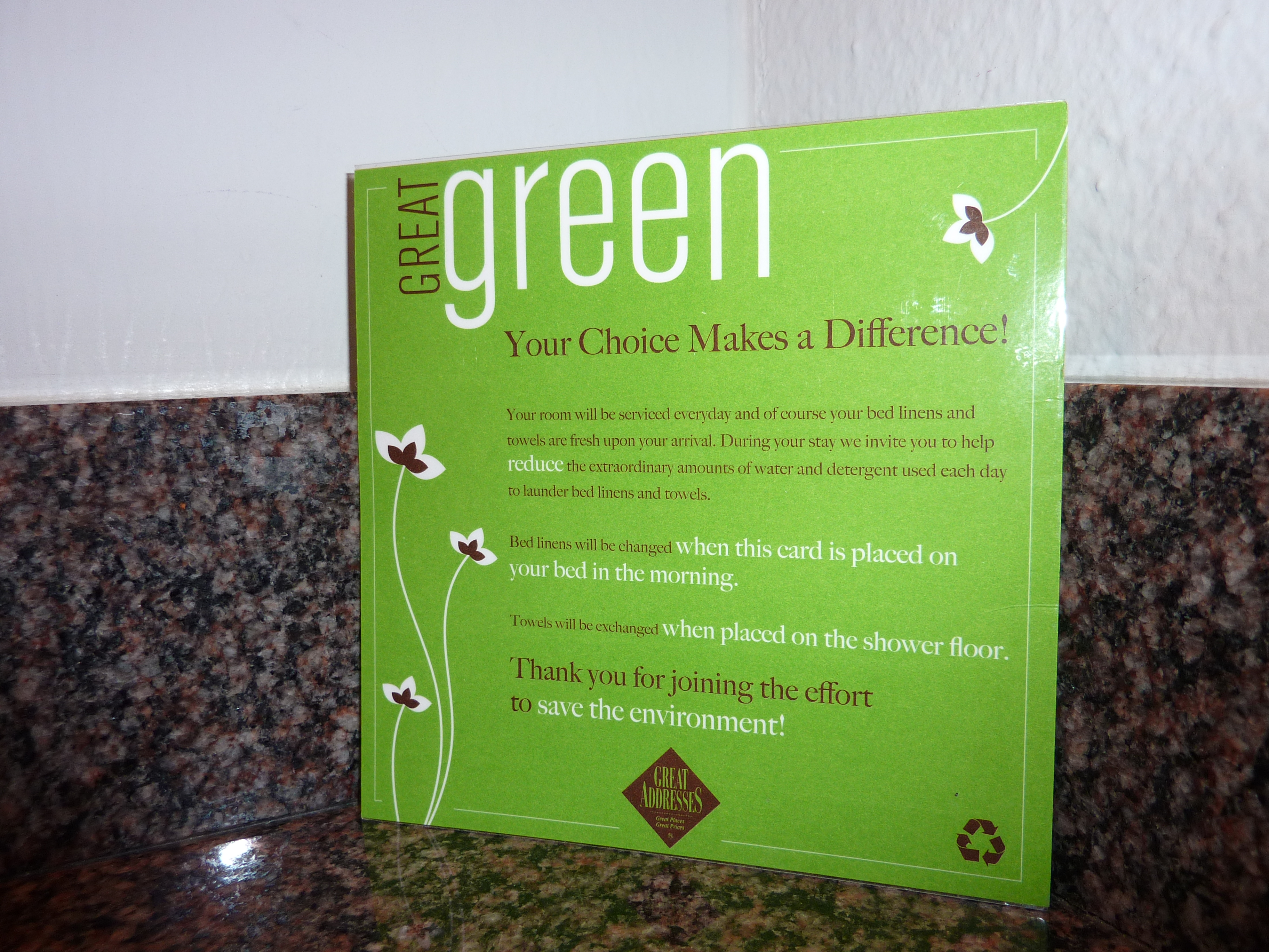 environmental propaganda